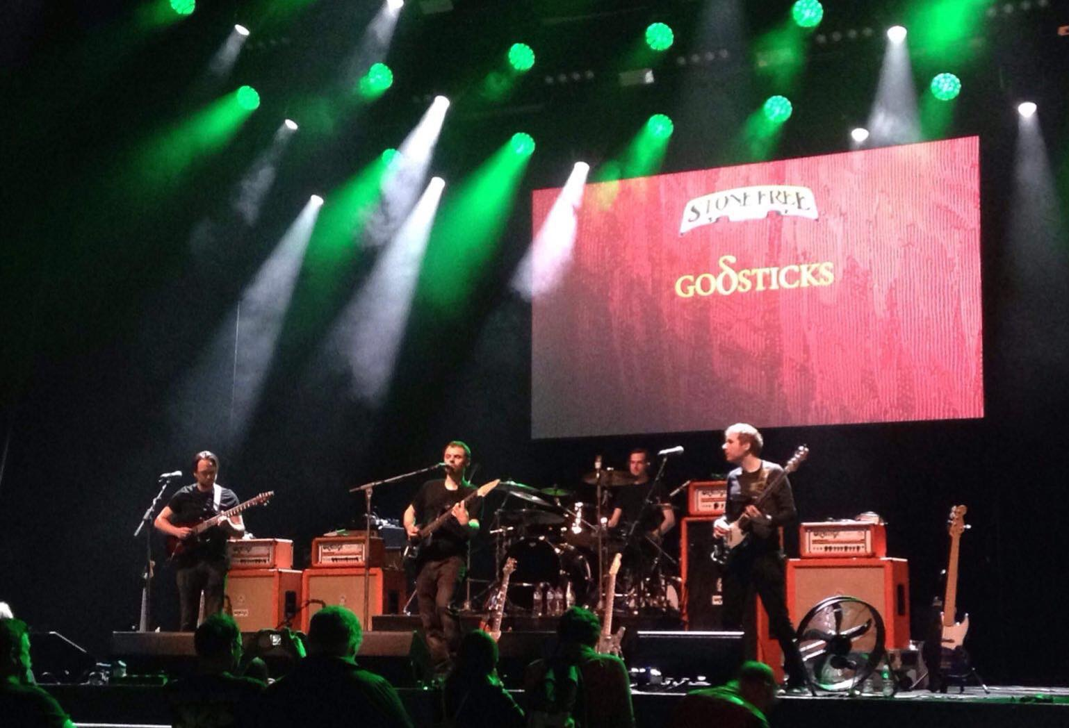 Godsticks live at Stone Free Festival London 17/06/18